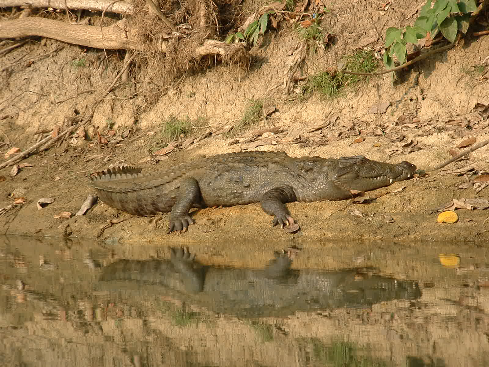 A sunbathing Mugger Crocodile in Chitwan National Park, Nepal.What a croc